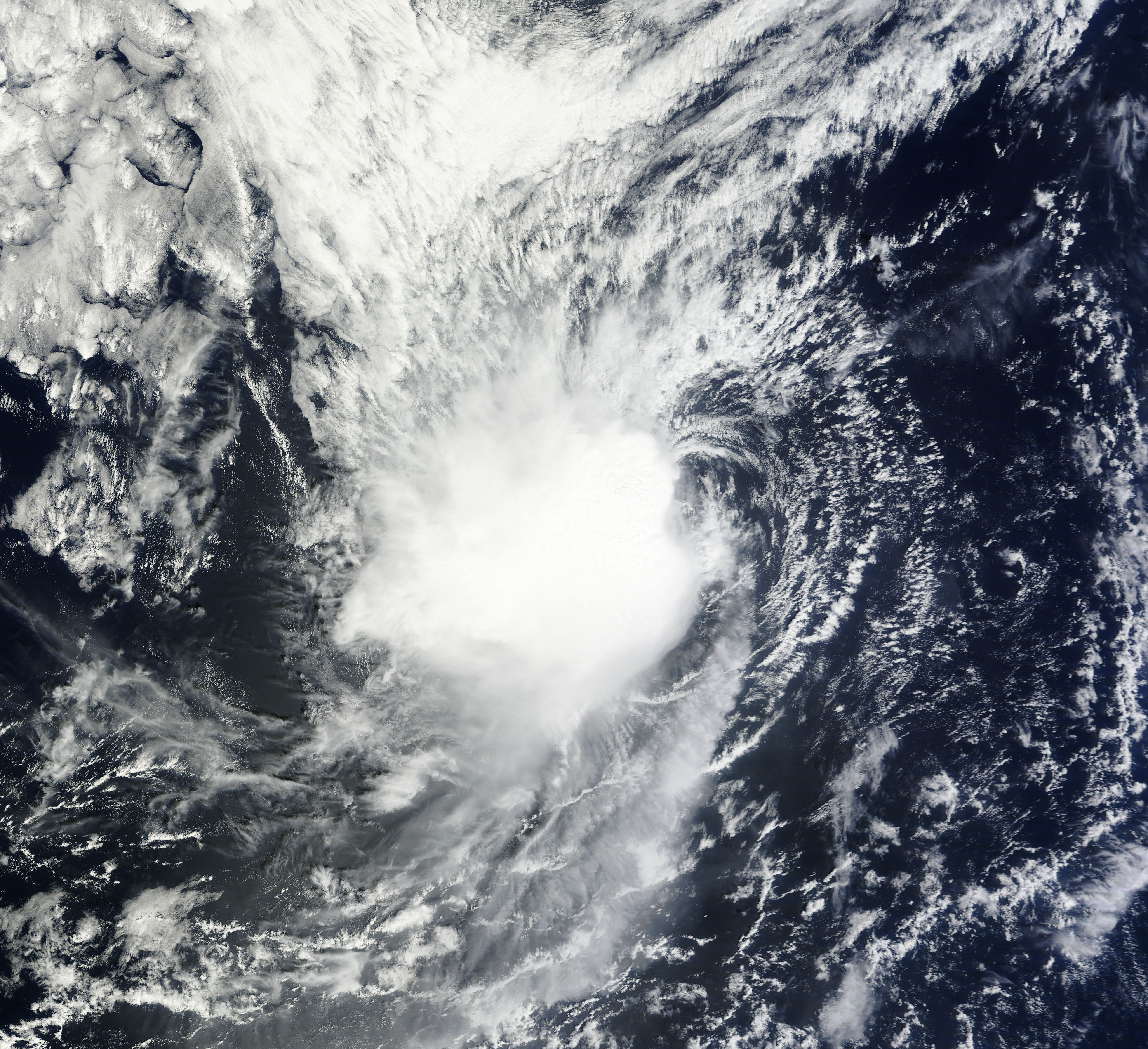 Tropical Storm Priscilla on October 14, 2013.